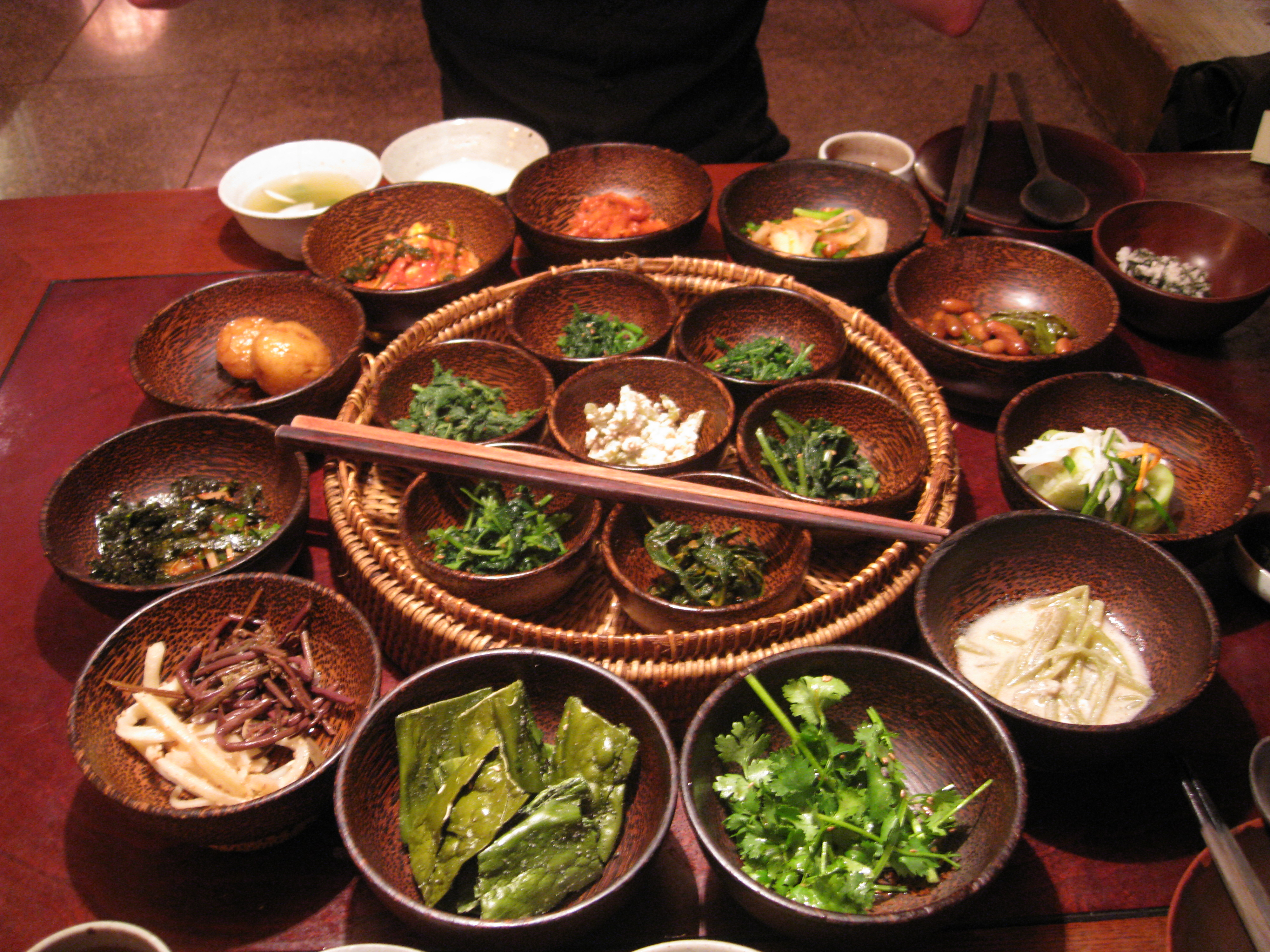 Buddhist influenced Korean side dishes, 40,000 won